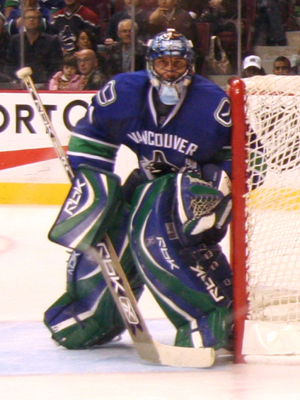 Vancouver Canucks goalie Roberto Luongo in 2007.